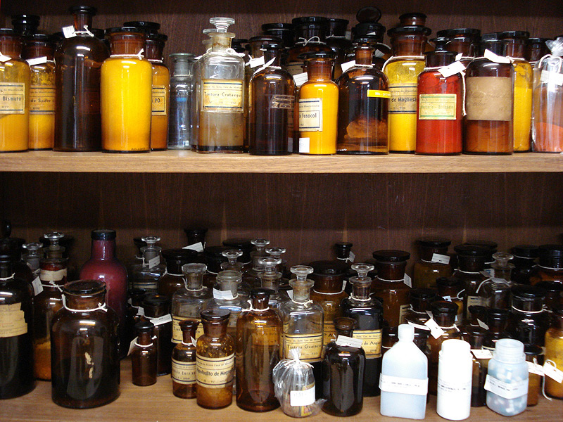 Flasks for medicines, Santa Casa de Misericórdia de Porto Alegre, Brazil.